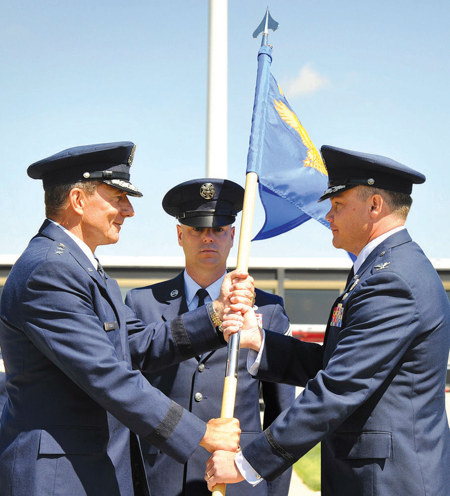 Lt. Gen. Mike Gould, Air Force Academy superintendent, passes the 10th Air Base Wing guidon and command of the wing to Col. Thomas Gibson during the wing's change of command ceremony June 27. (U.S. Air Force Photo by Bill Evans)